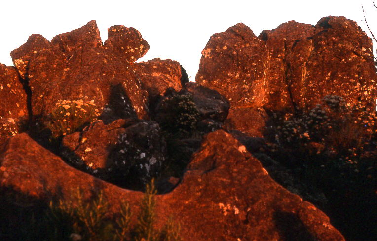 hanging rock, australia